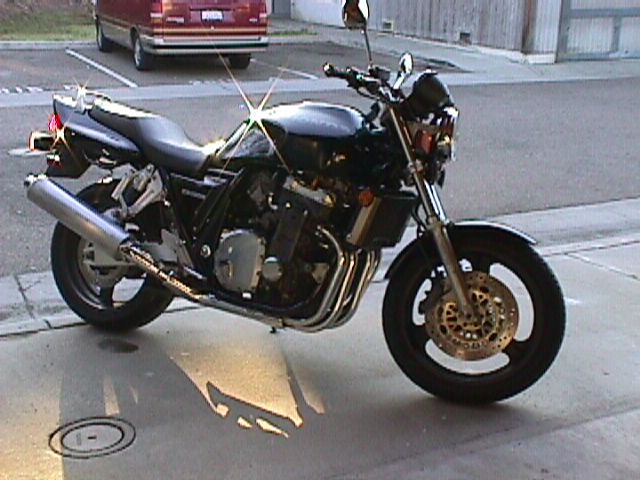 1994 Honda CB1000 U.S. 49 state model.